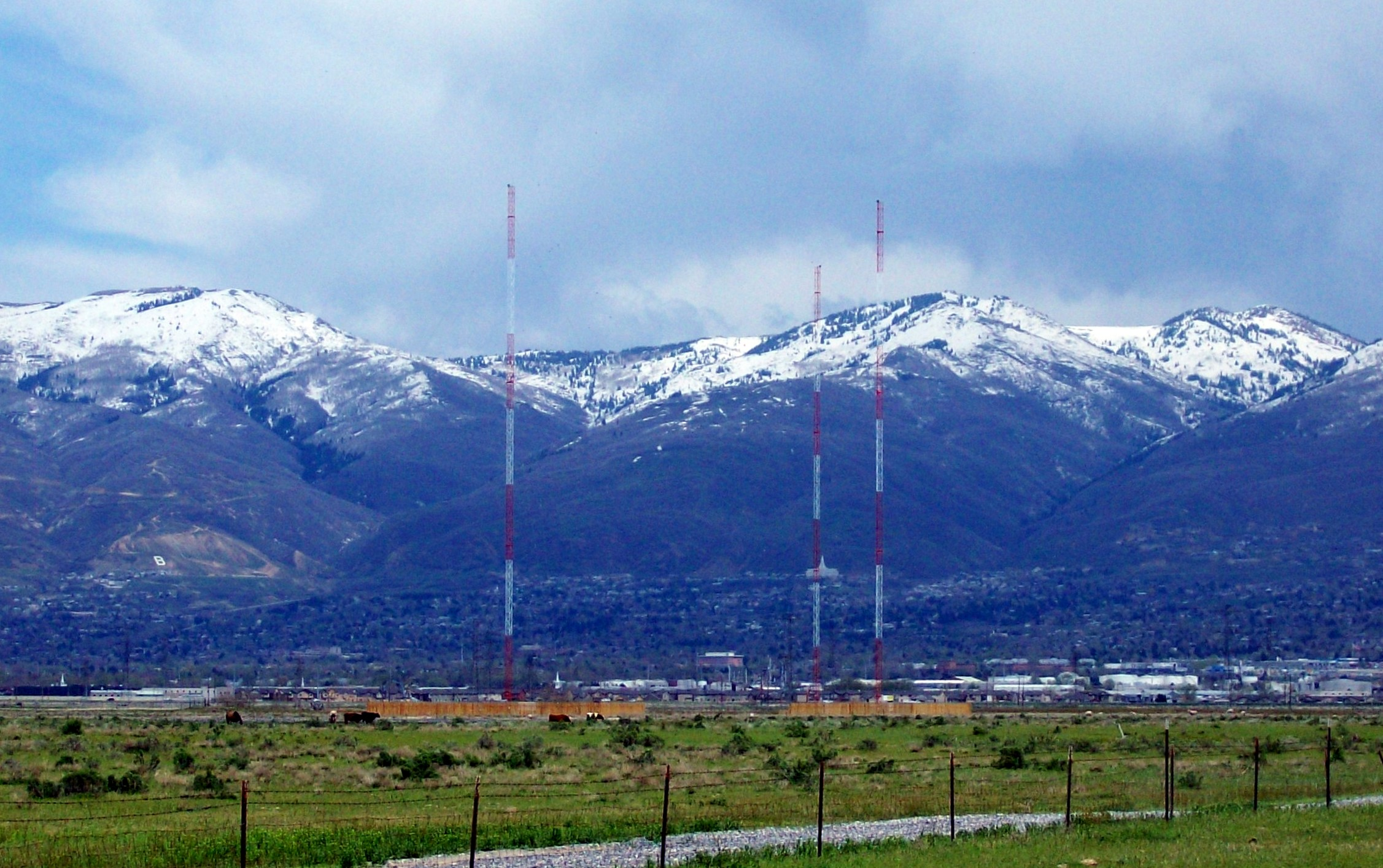 KZNS 1280 North Salt Lake, Utah, a local sports station. These towers are located north of the SLC international airport.